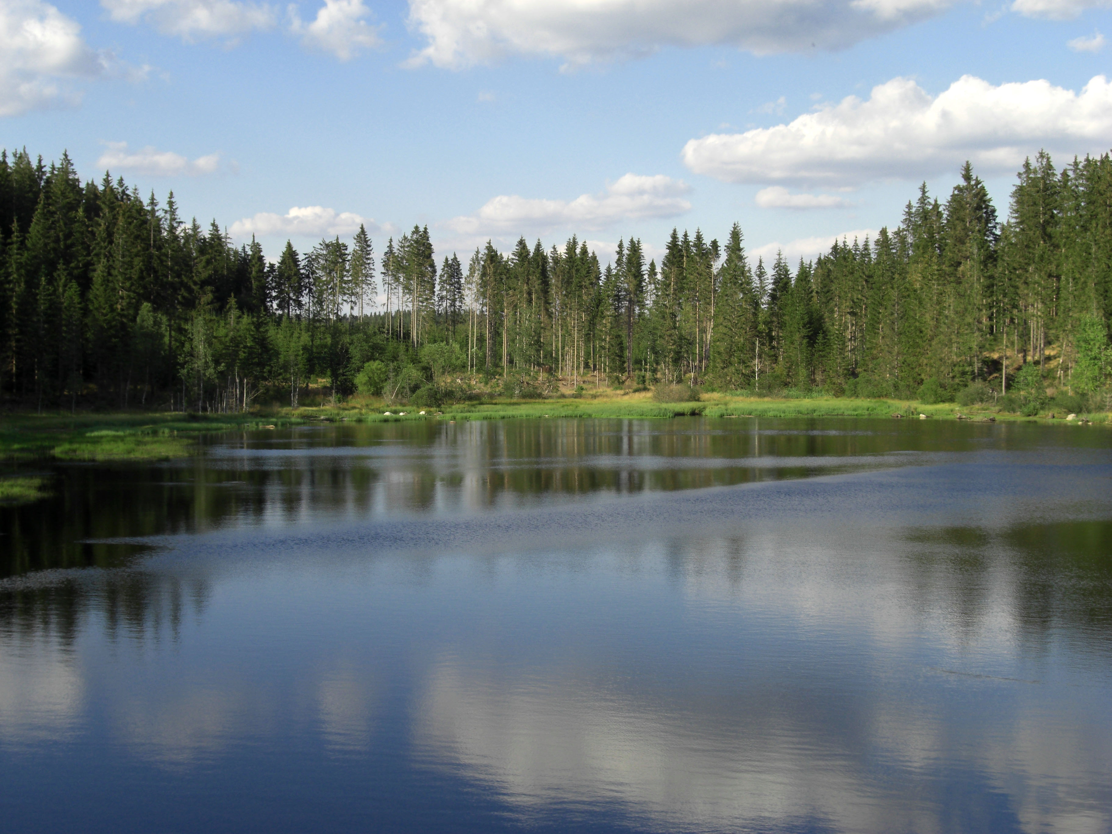 Rubener Teich in the bog "Tanner Moor" near Liebenau, Upper Austria